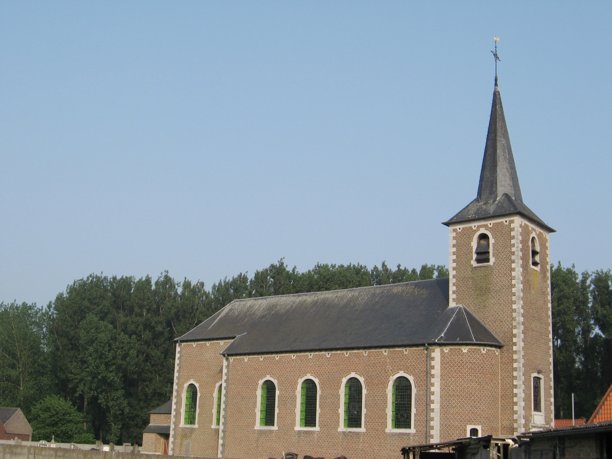 Church of Saint Martin in Dormaal, Zoutleeuw, Flemish Brabant, Belgium